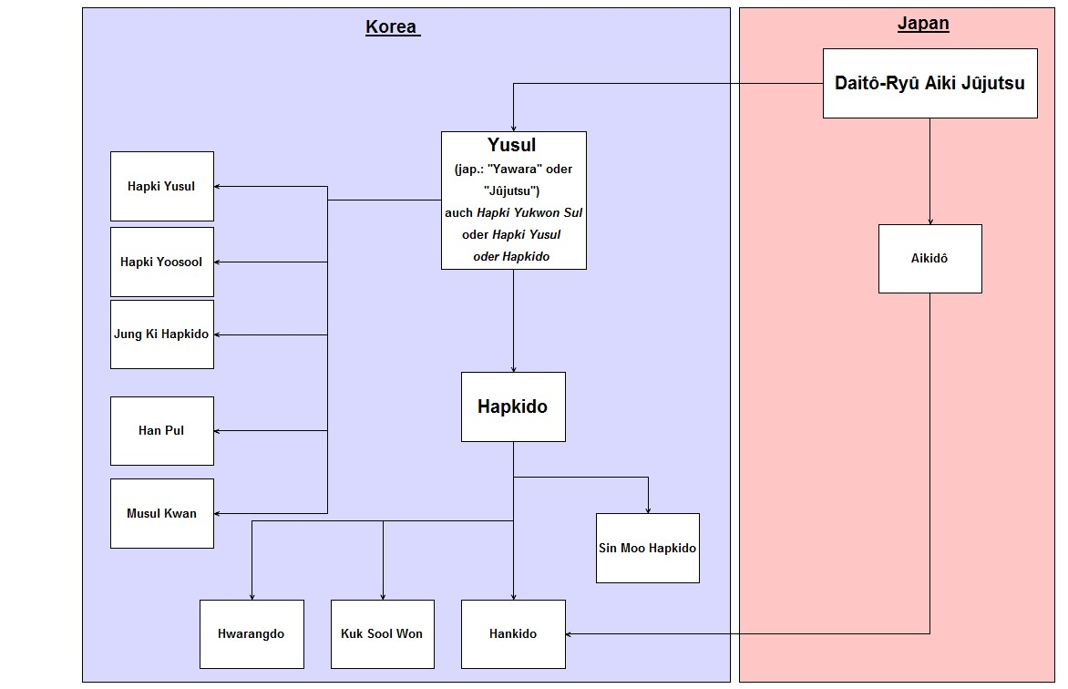 Some of the styles that originated from Daito Ryu Aiki Jujutsu.